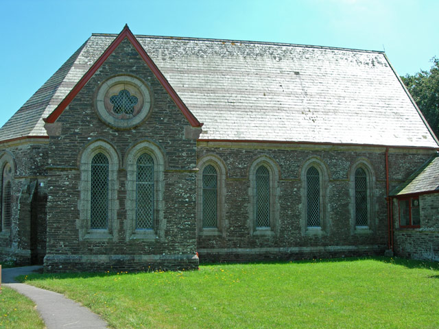 South Petherwin Chapel South Petherwin chapel has a small graveyard.